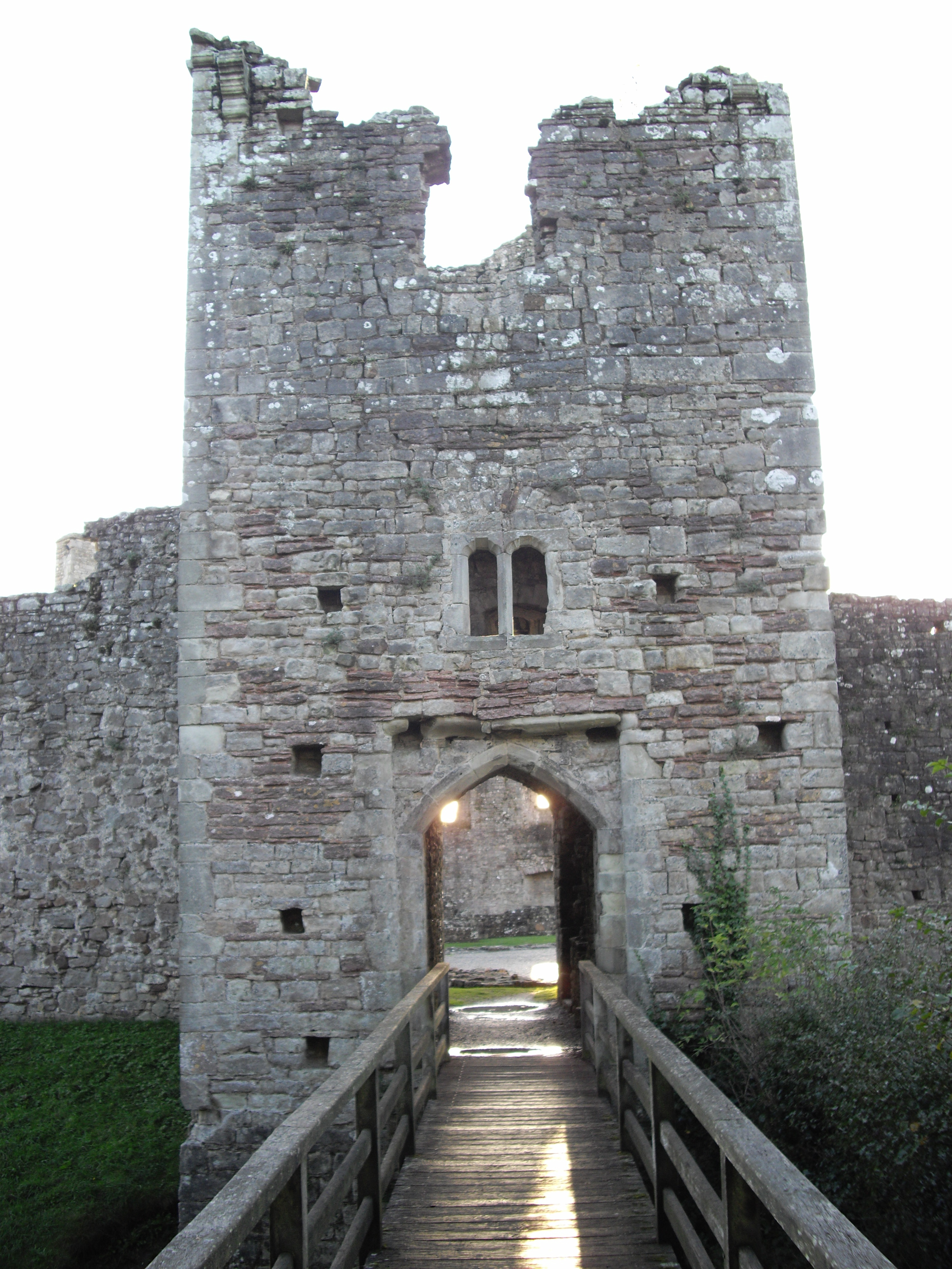 East Gate, Coity Castle